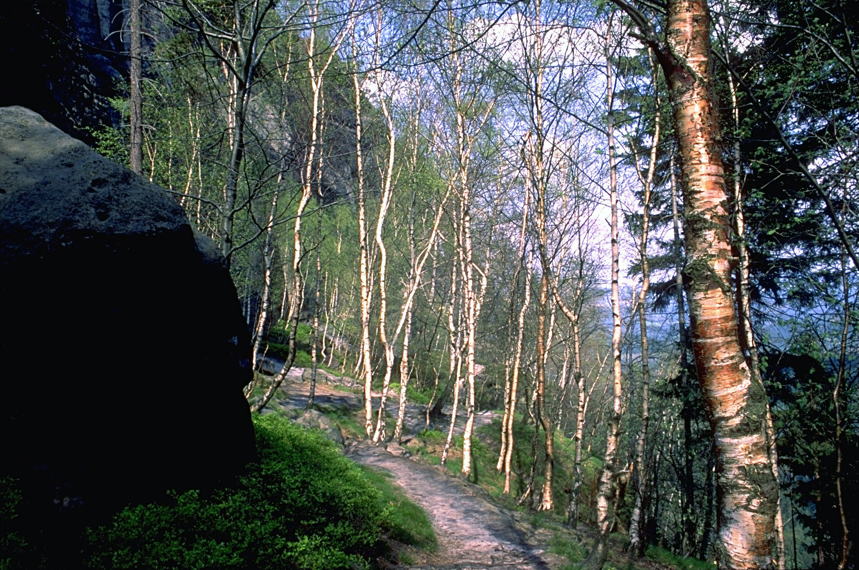 Birch (Betula pendula) wood in Elbe Sandstone Mountains, Germany Photo was taken using the following technique: Film: Fuji Velvia Lens: 2.8/28 Filter: none Body: Minolta Dynax 7 Support: none Image with Information in English Bild mit Informationen auf Deutsch